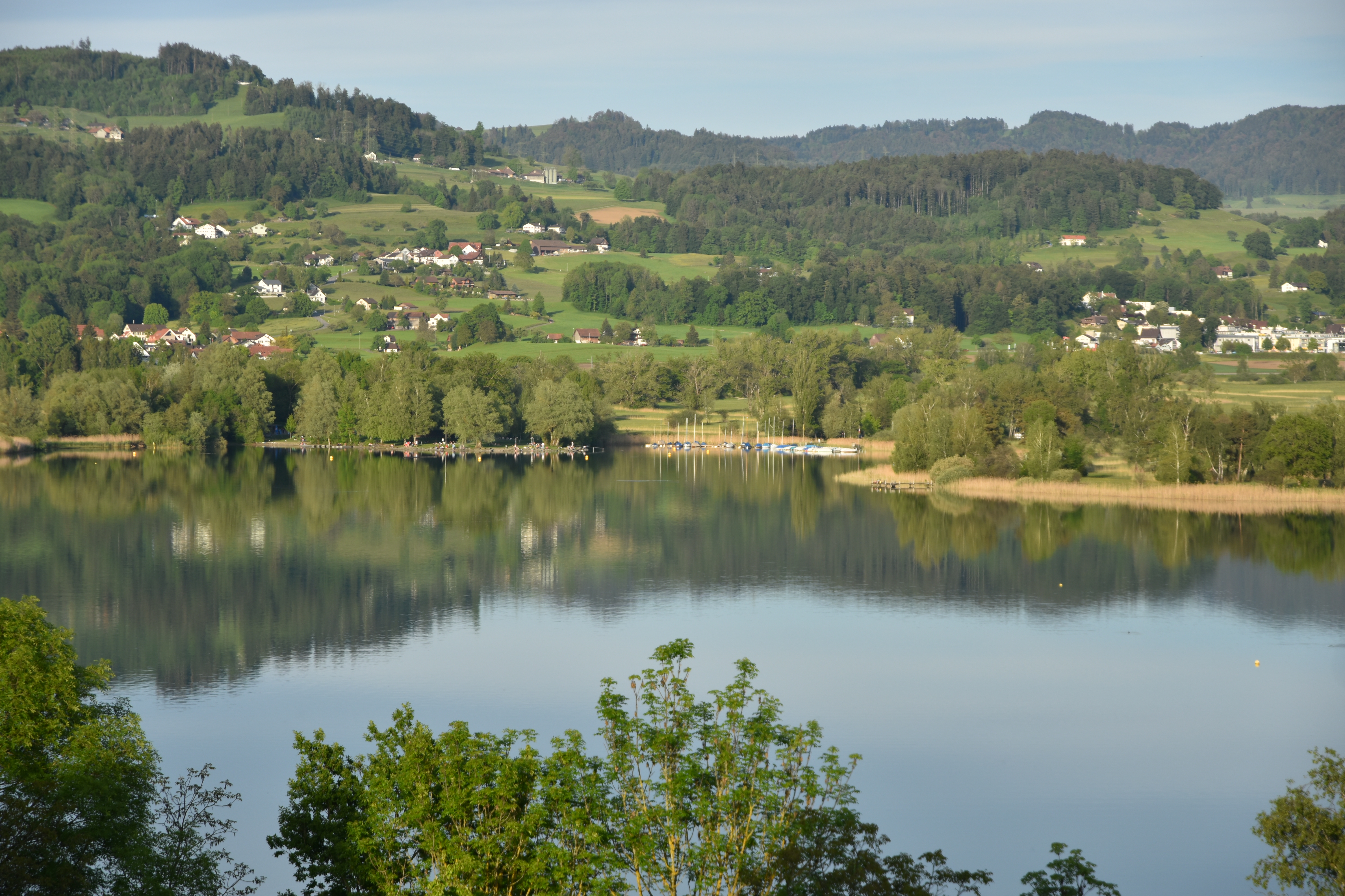 Irgenhausen towards Auslikon and Robenhausener Ried alongside Pfäffikersee as seen from Jucker Farm in Seegräben (Switzerland)